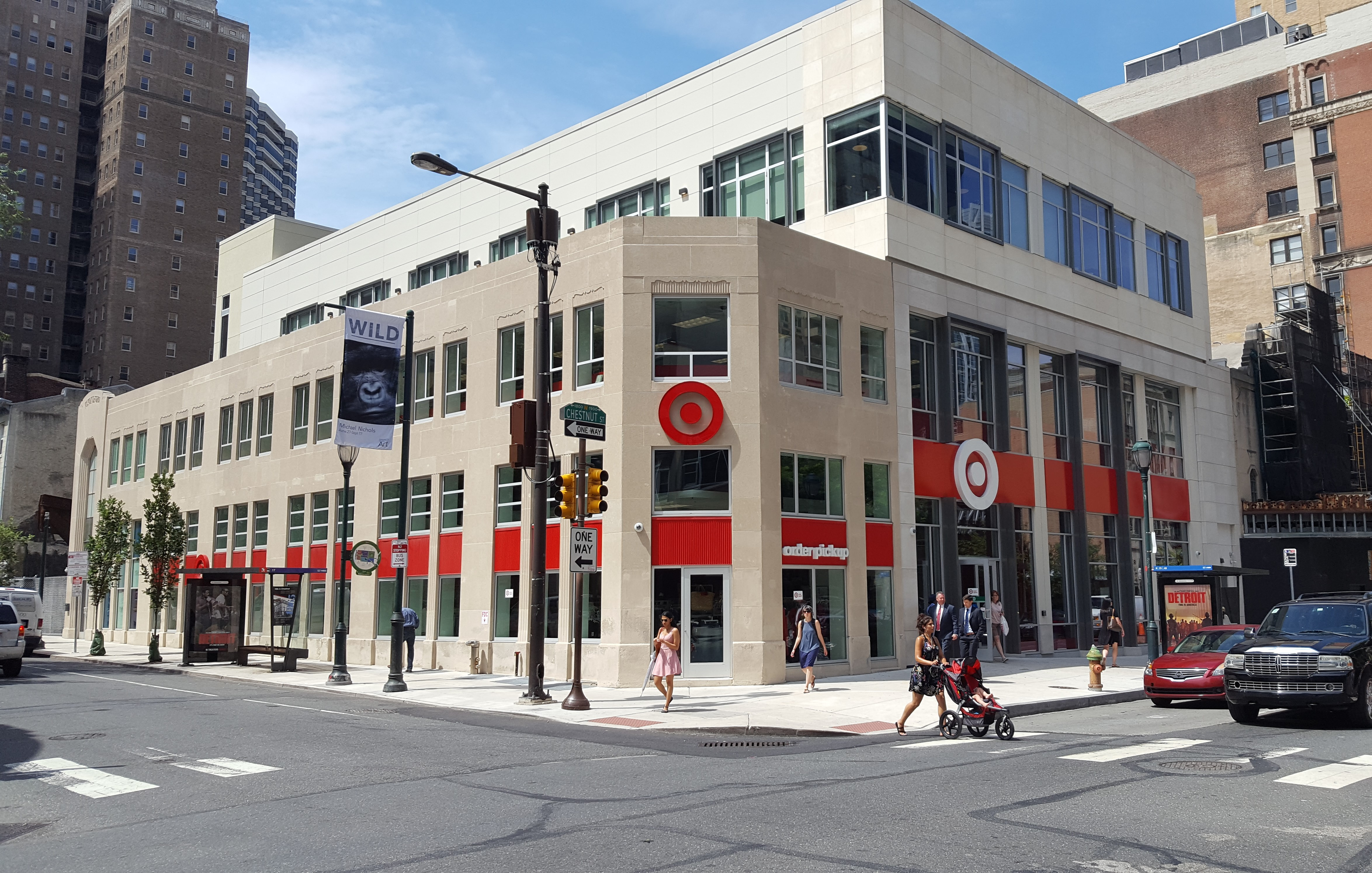 Present-day appearance of Raymond Pace Alexander's law office (now a Target)